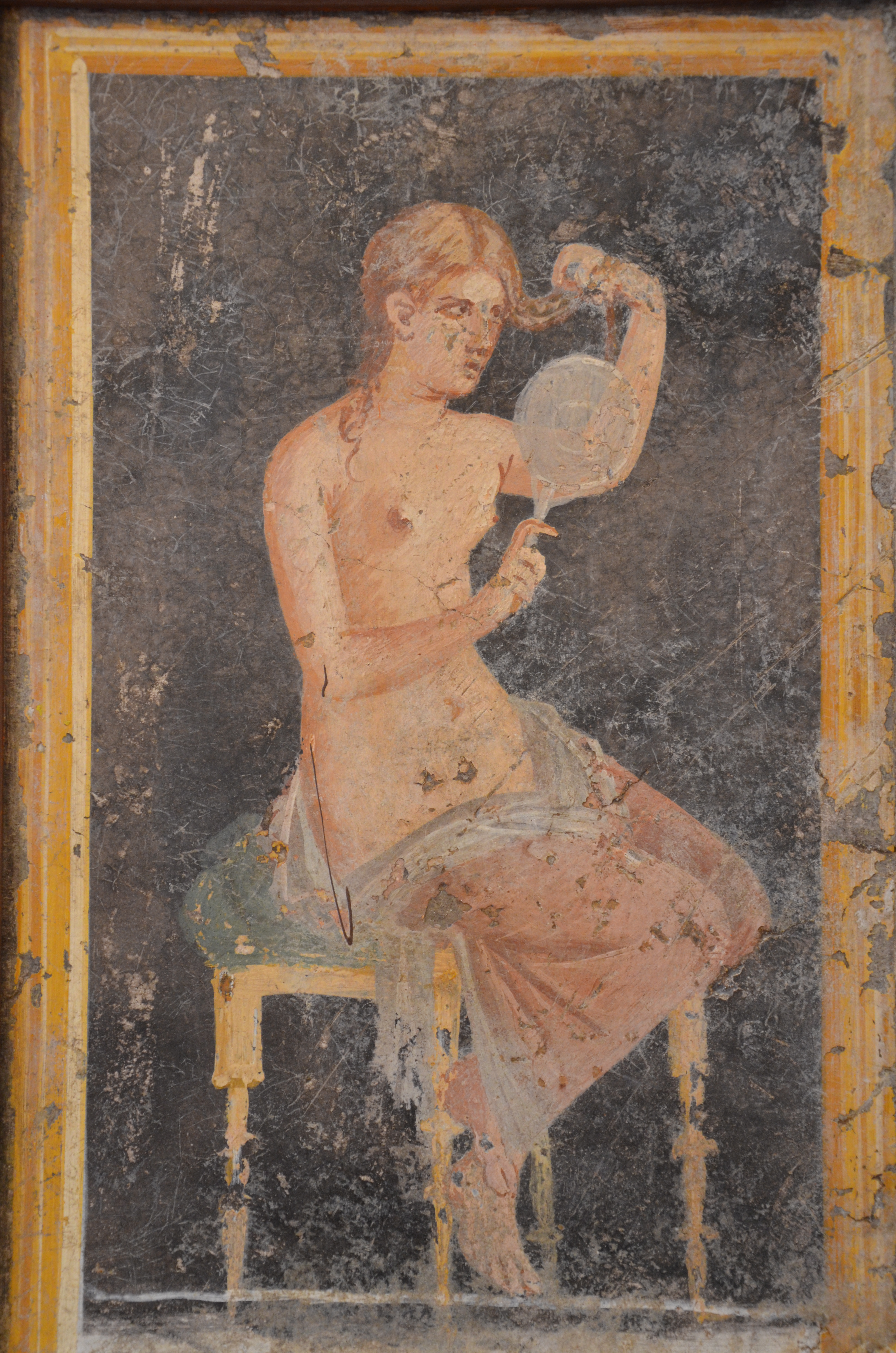 Fresco showing a woman looking in a mirror as she dresses (or undresses) her hair, from the Villa of Arianna at Stabiae (Castellammare di Stabia), Naples National Archaeological Museum